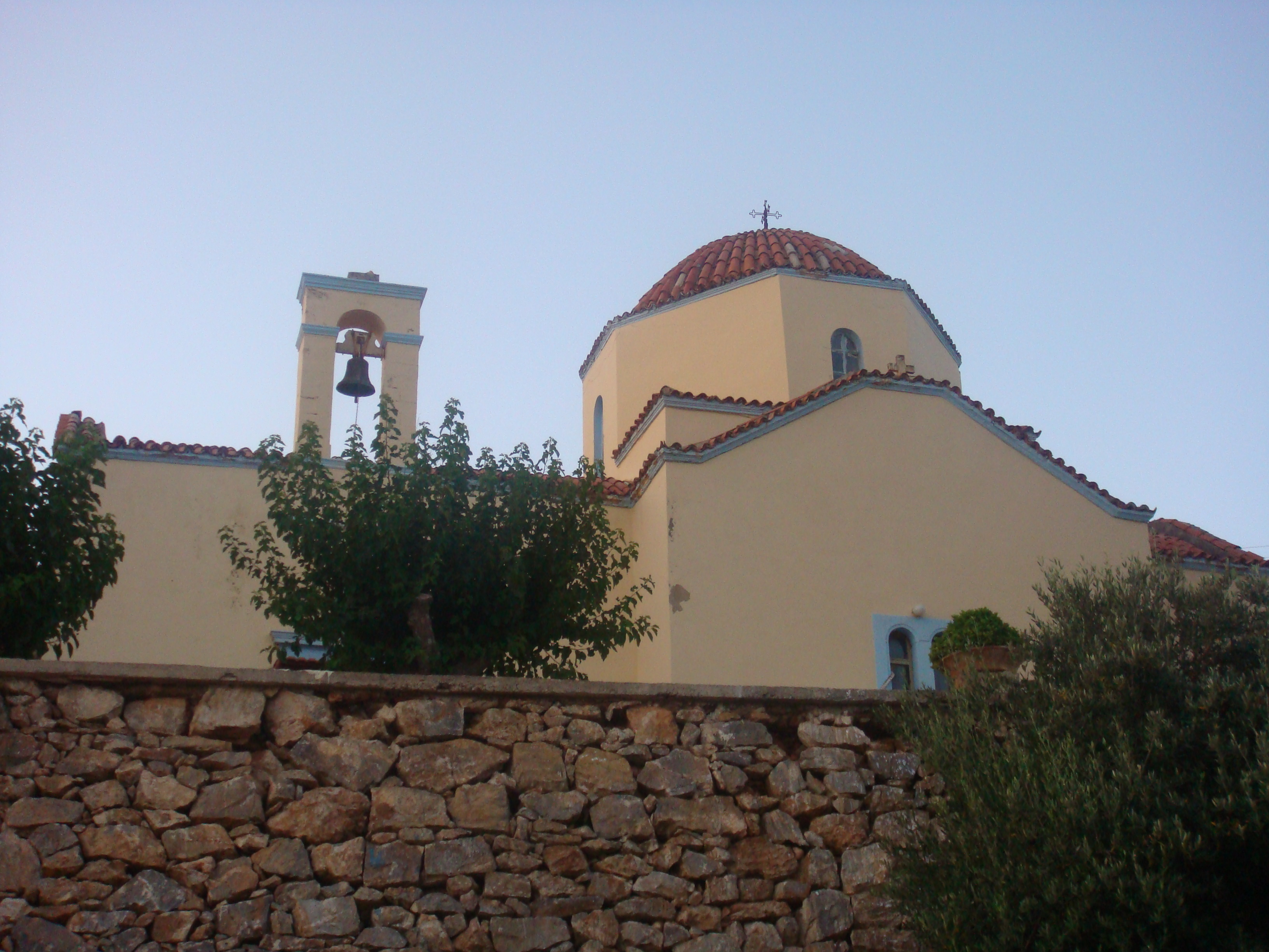 Church of Agios Haralambos, in Armaha, Iraklion Prefecture.